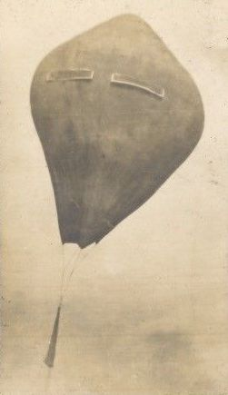 Image of a balloon ascension between 1890 and 1909.